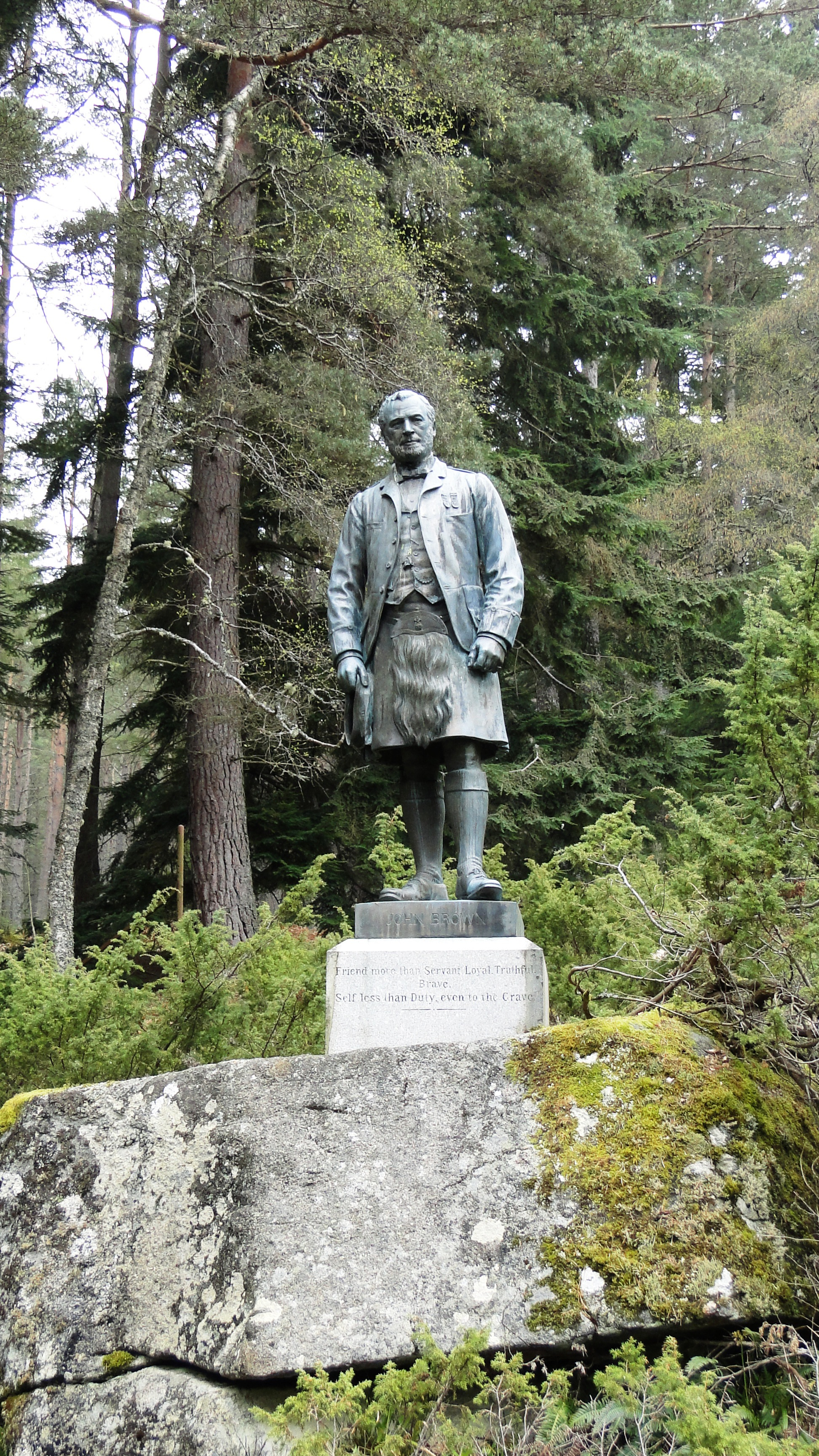 Statue of John Brown, sculpted by Joseph Edgar Boehm, Balmoral Estate, Ballanter, Scotland